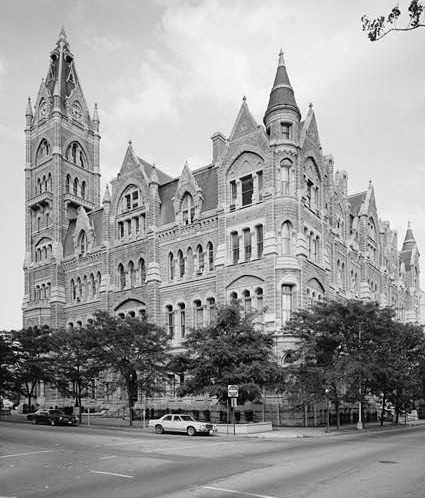 Richmond City Hall (Virginia).(cropped)